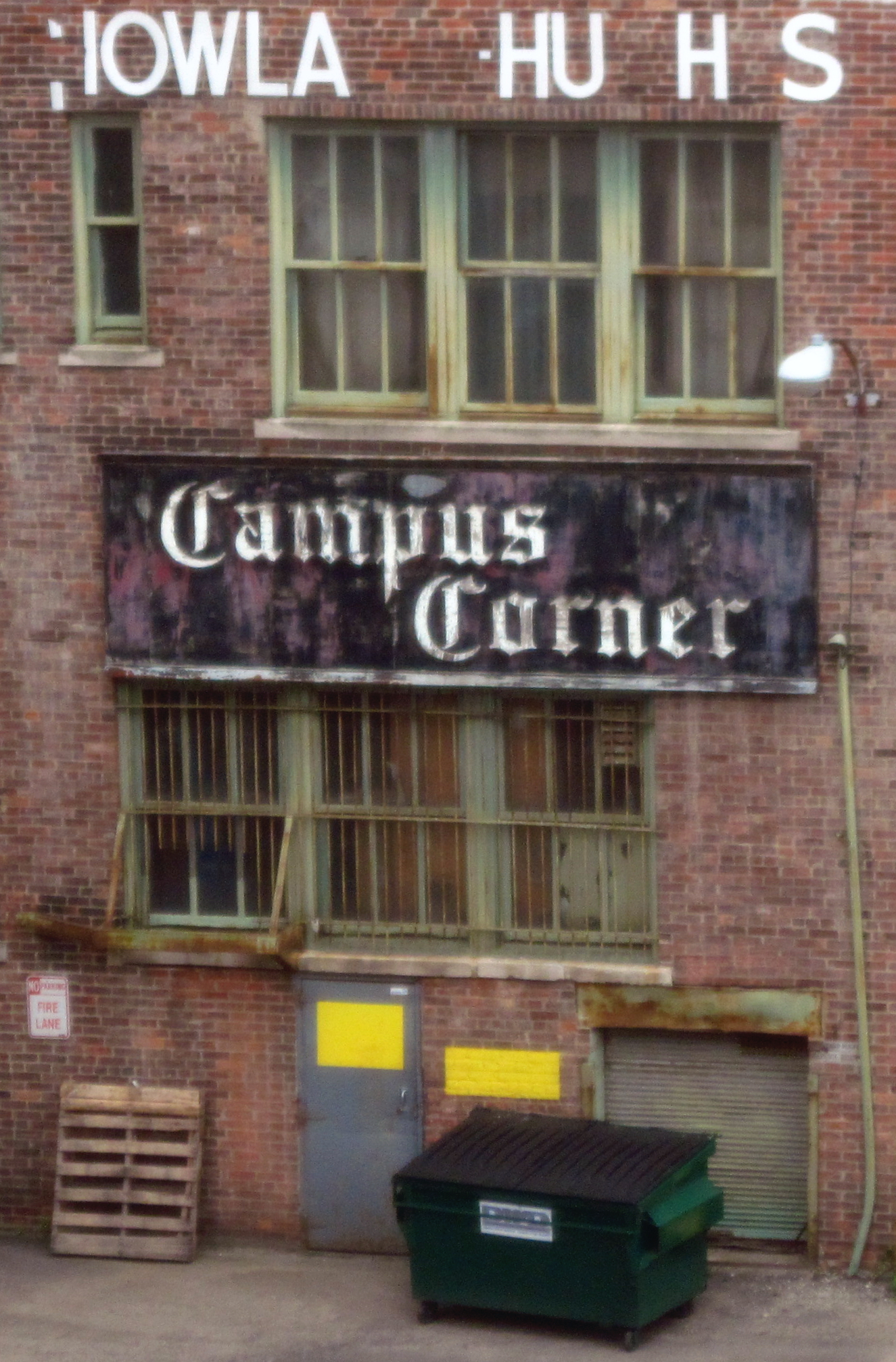 Rear facade of the former Howland Hughes department store building on Printer's Court in Waterbury, Connecticut, designed by architect Wilfred Griggs. Unlike the front of the building facing Bank Street, the back of the building has not been restored (as of 2011).